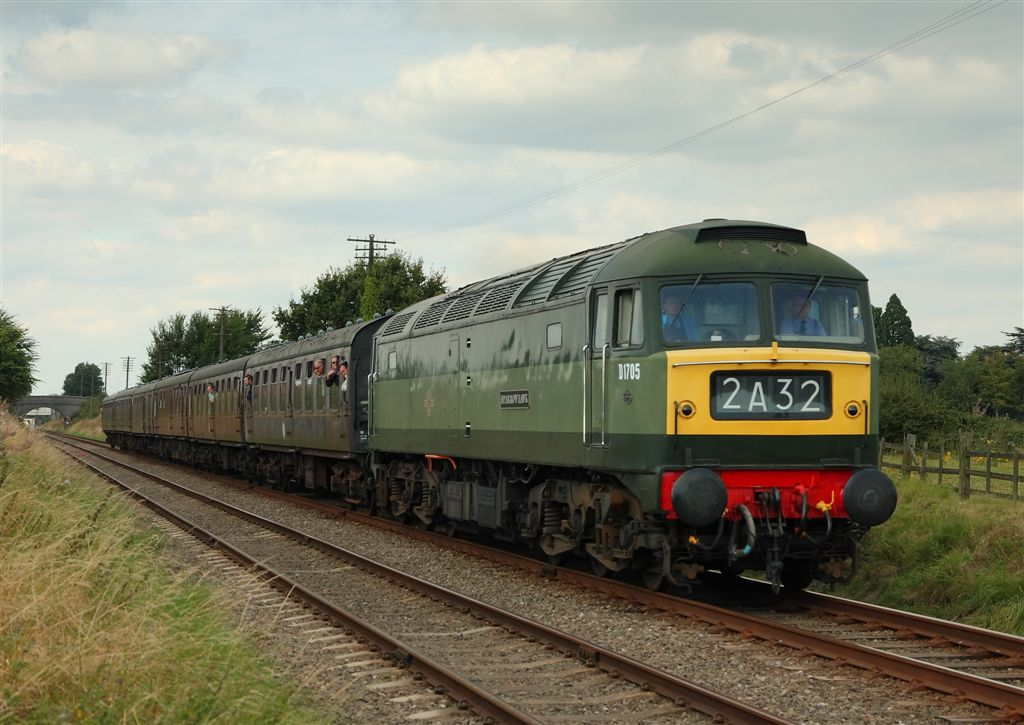 D1705 near Quorn